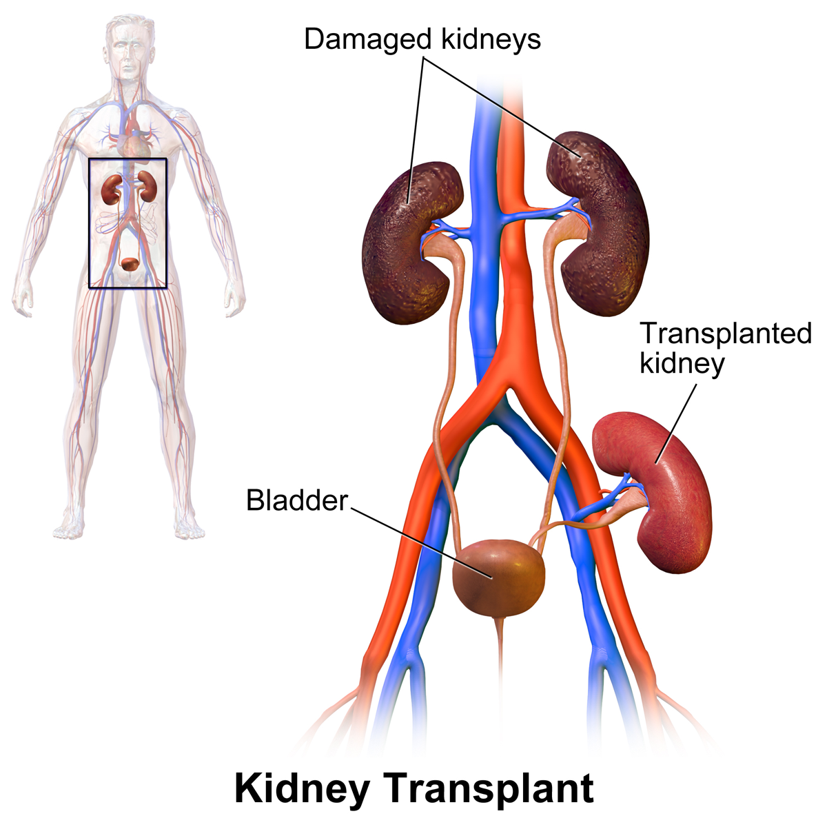 Kidney Transplant. See a full animation of this medical topic.